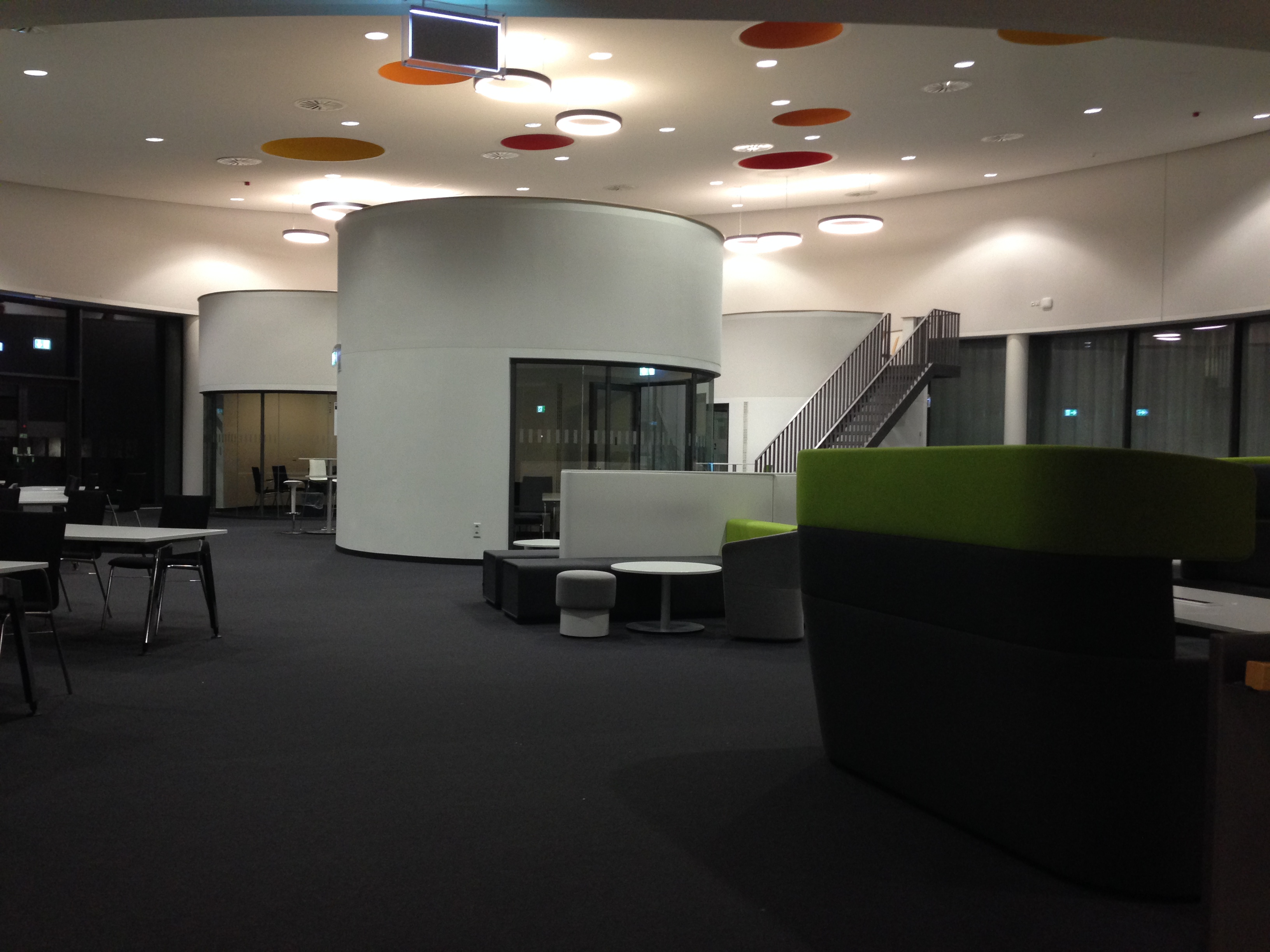 The reading room at University of Wuppertal, opened in 2012.